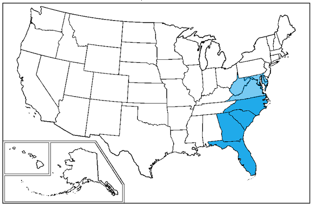 The dark blue states are always included in the South Atlantic States region. The light blue states are included in both the South Atlantic, Mid-Atlantic and Northeast regions.